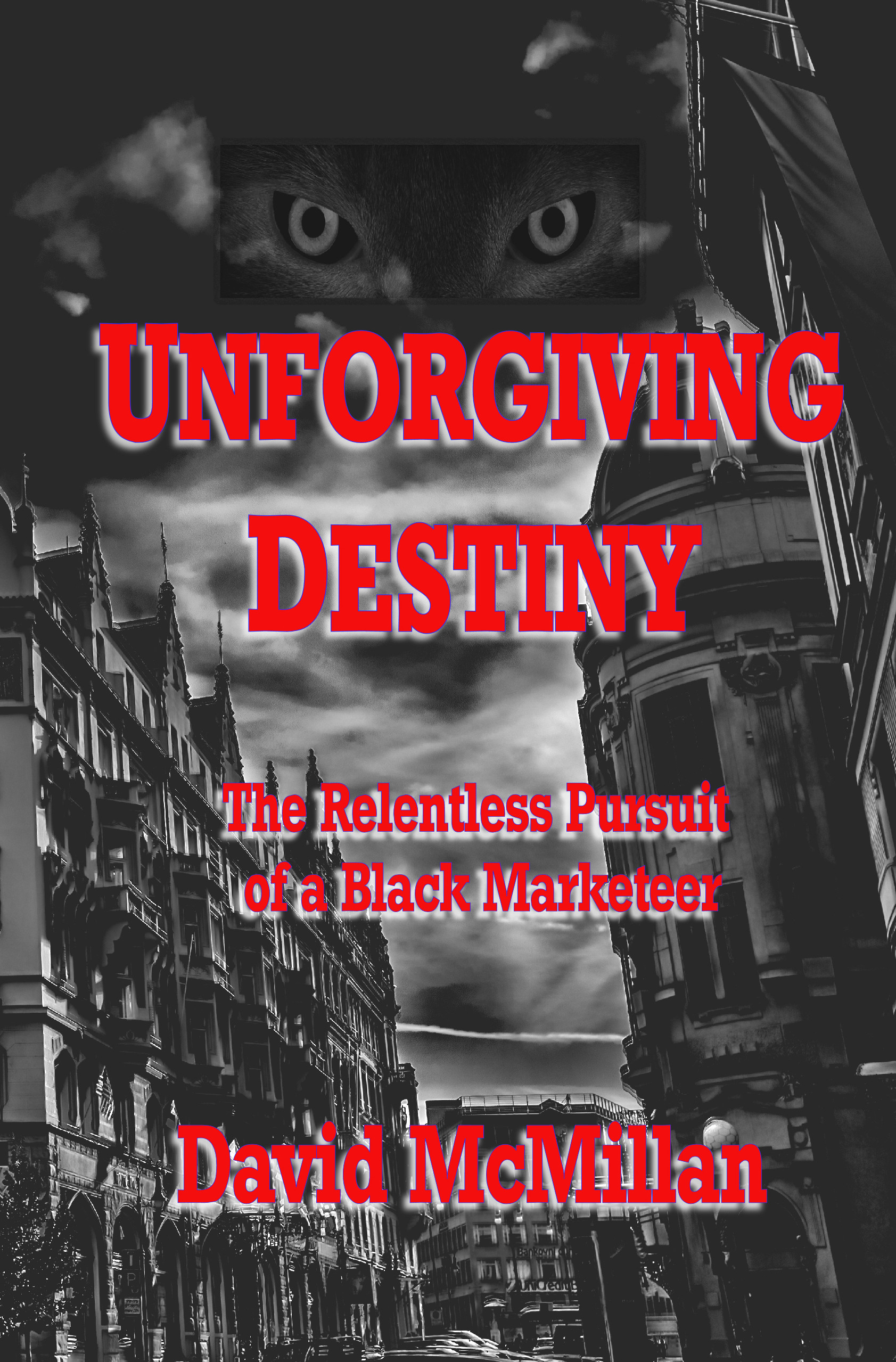 Unforgiving Destiny, book cover 2017 edition